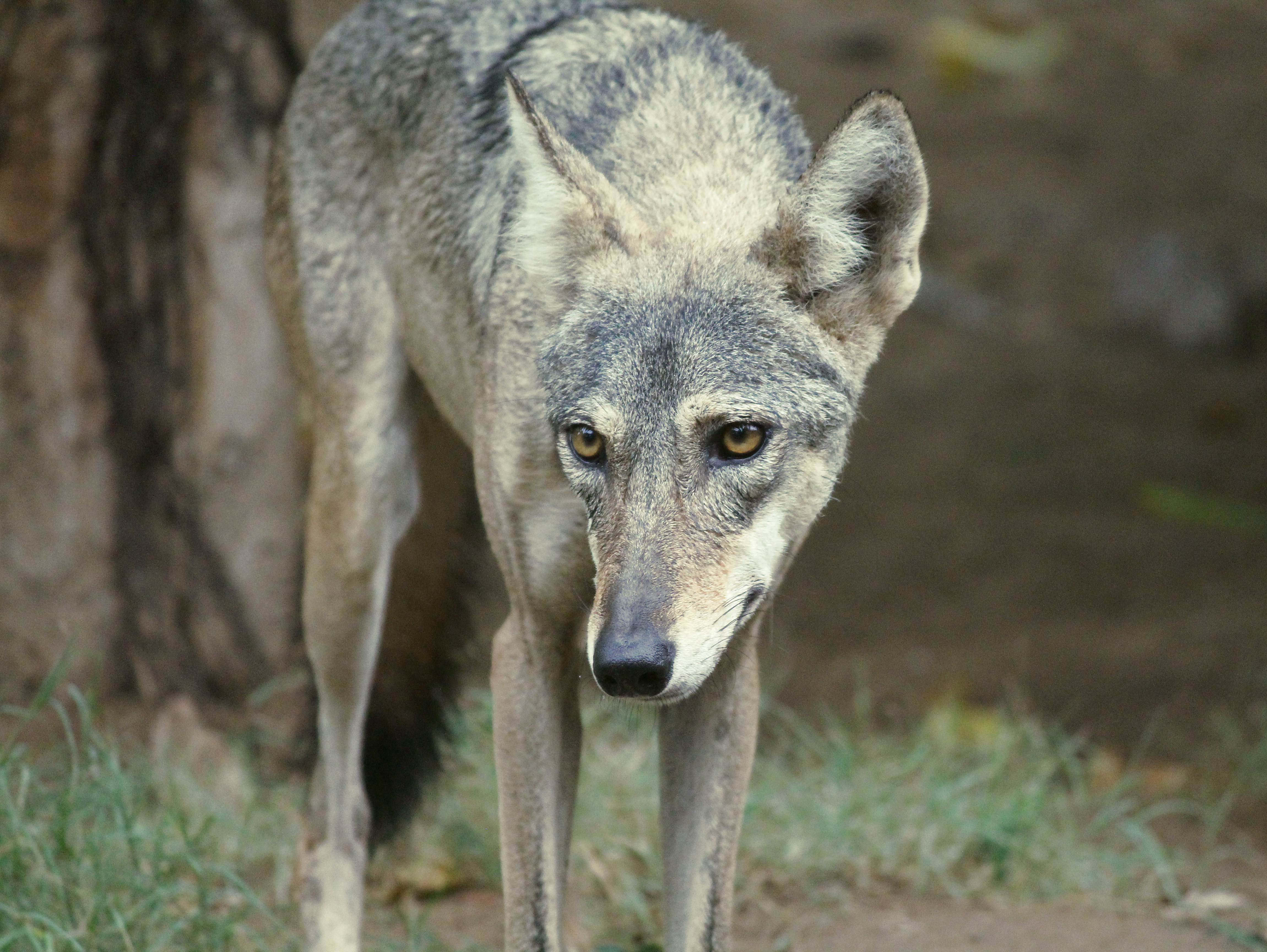 Side-striped Jackal